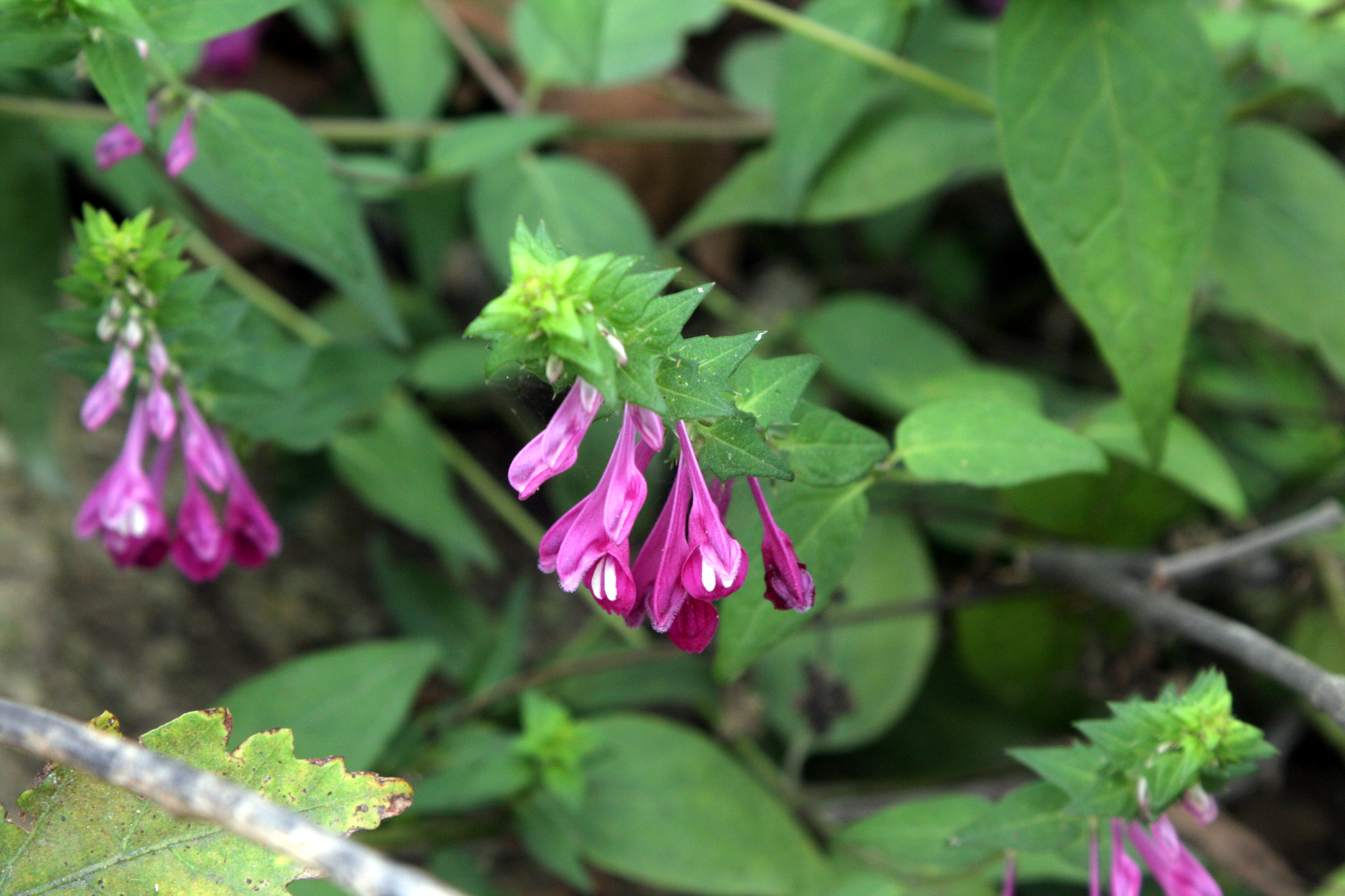 Melampyrum roseum